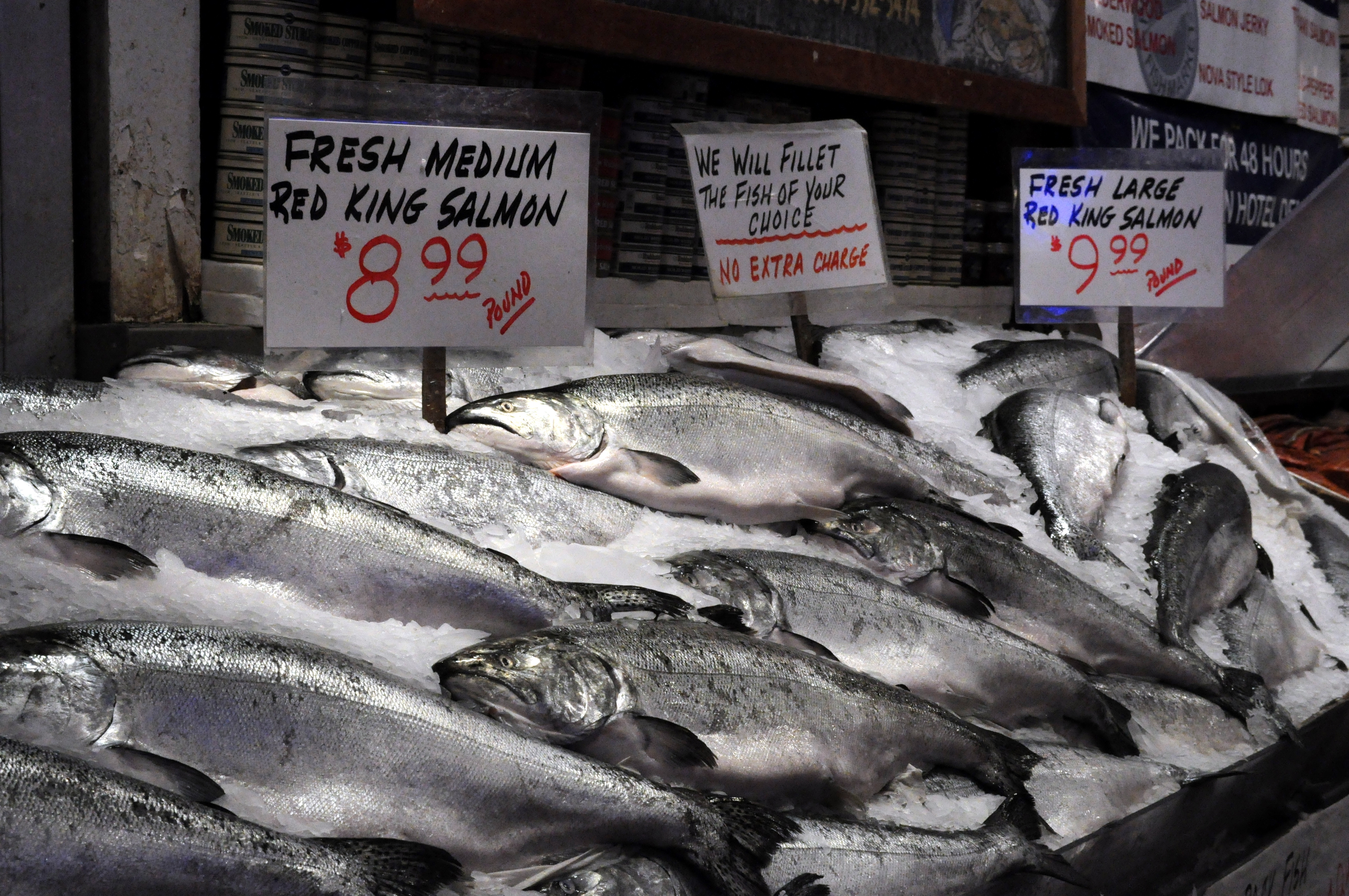 Silver Salmon (Coho salmon) for sale at Pure Food Fish, Main Arcade, Pike Place Market, Seattle, Washington.